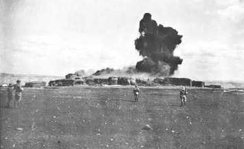 The Palestinian Arab village of Sha'ab being demolished by British forces during the 1936 Arab revolt.